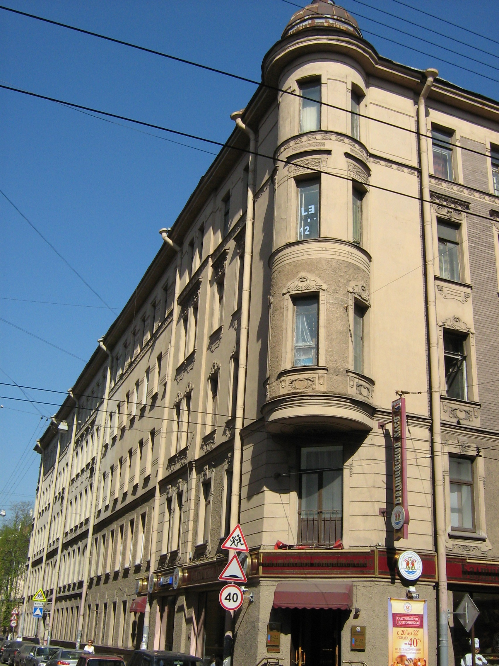 26, Plutalova Street - 80, Bolshoy Prospekt P.S. (Saint-Petersburg, Russia). Architect Sergey Barankeev, 1904.